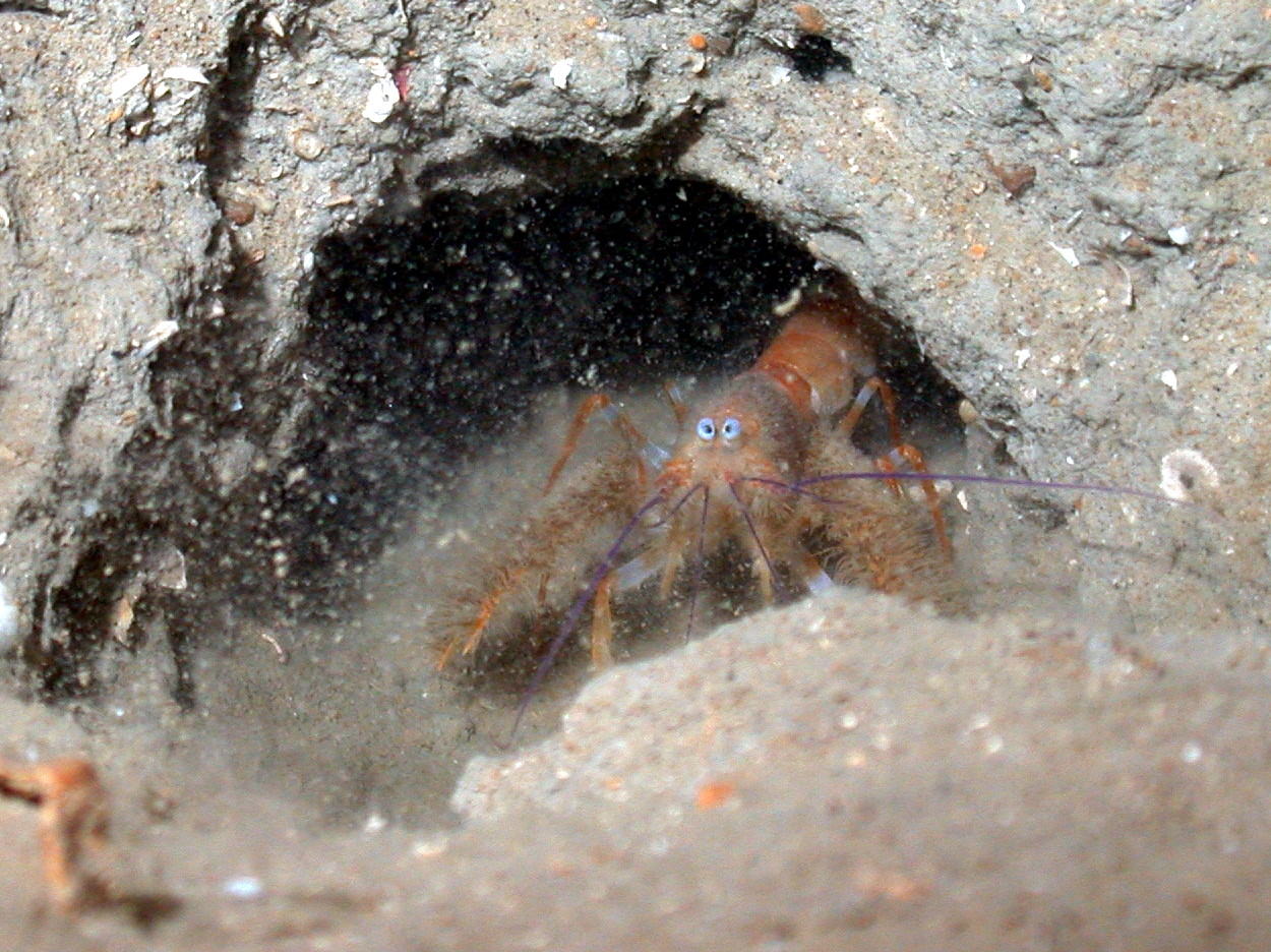 A blind furry lobster (Palinurellus gundlachi) in its burrow.